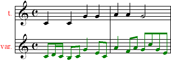 Theme and variation (music) notation Ziga 09:41, 11 February 2007 (UTC)